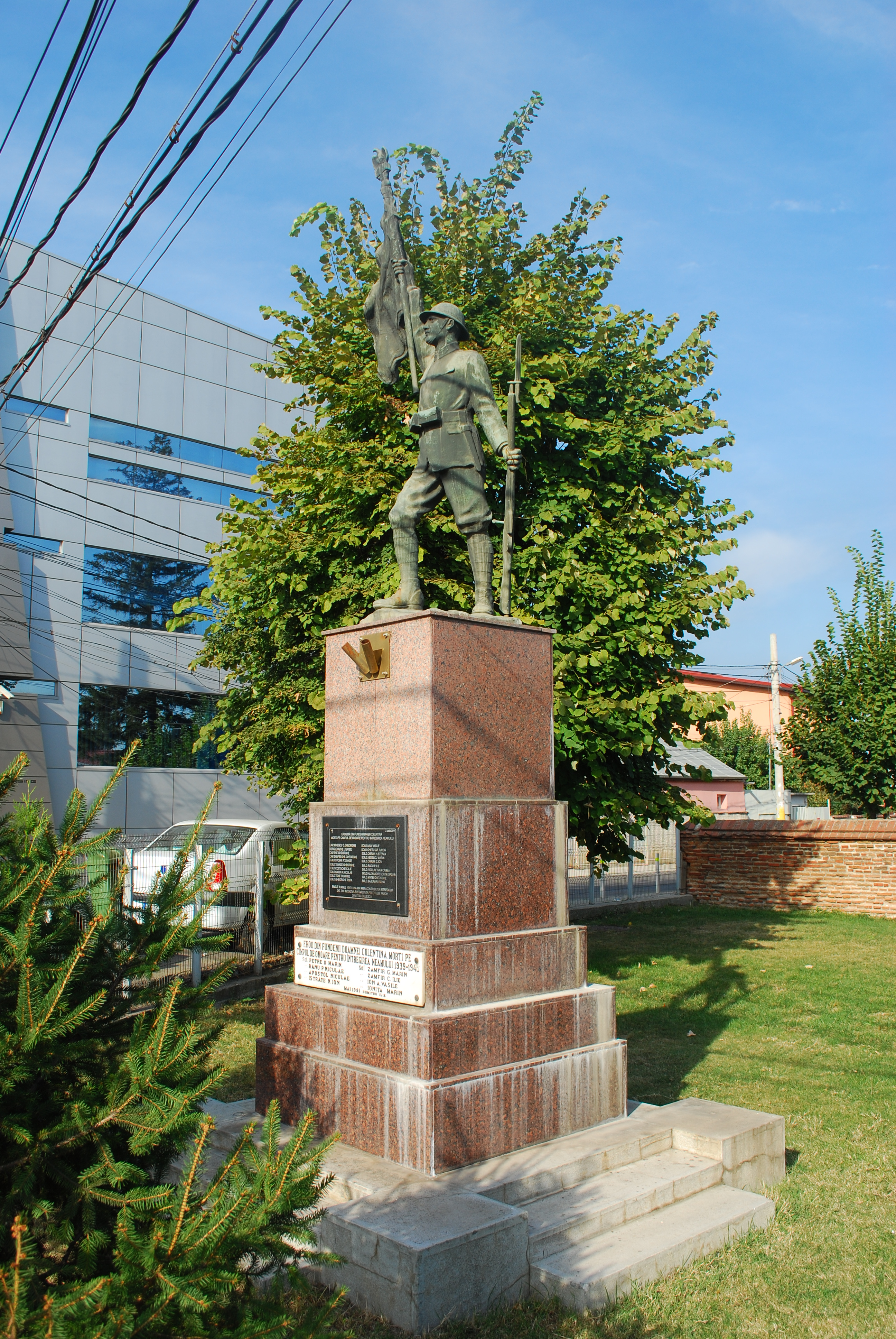 World War I heroes' monument in Fundeni, Dobroești Commune, Ilfov County, RomaniaRomână: Monumentul eroilor Primului Război Mondial din satul Fundeni, comuna Dobroești, județul Ilfov, România